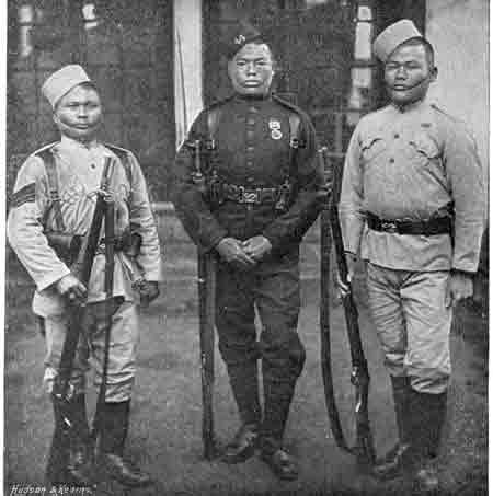 Old Photo with Gurkha Soldiers This photo is from the "The Navy and Army Illustrated", July 24th, 1896, and therefore the copyrights have expired.